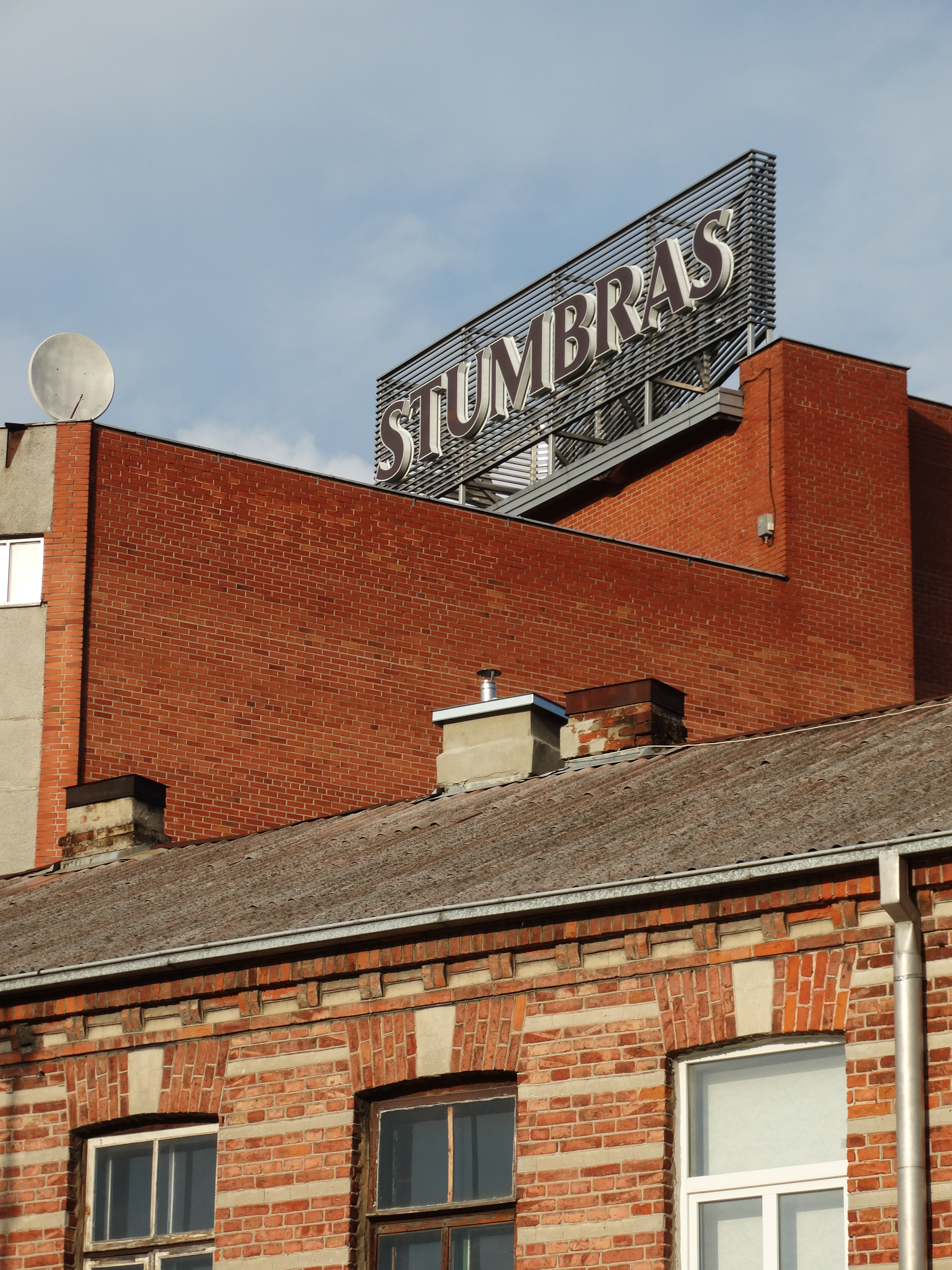 AB Stumbras, producer of strong alcoholic drinks, Kaunas, Lithuania